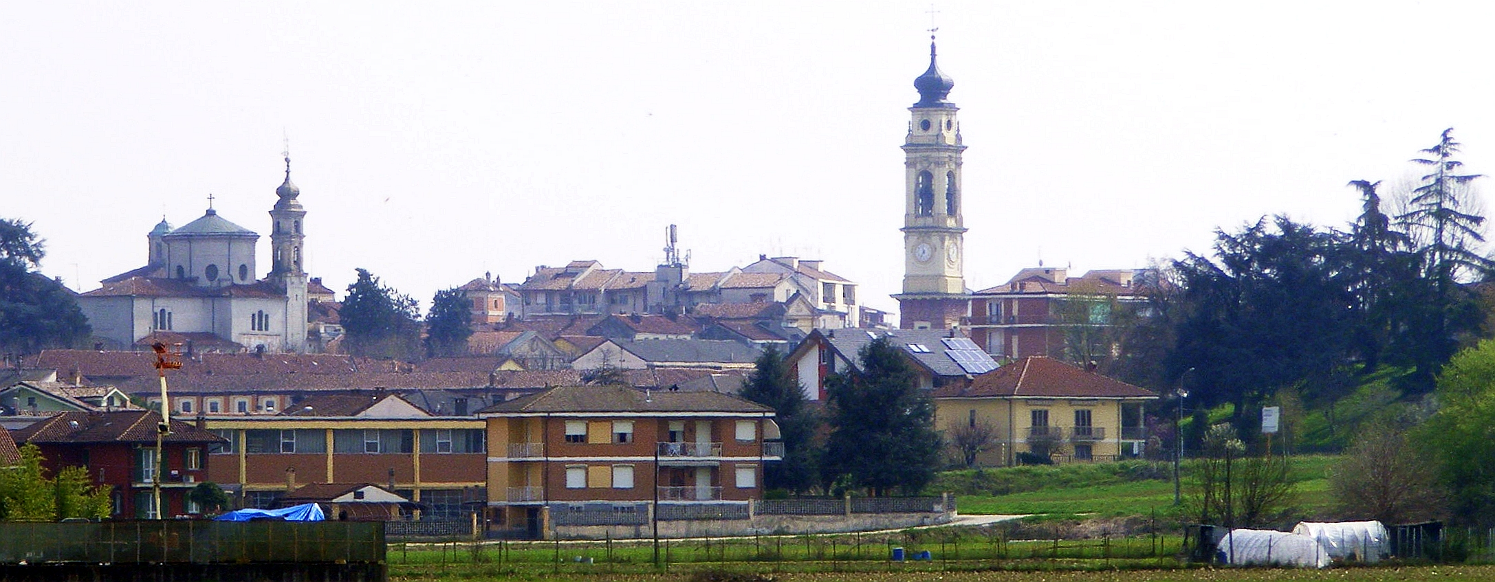 Poirino (TO, Italy): panorama